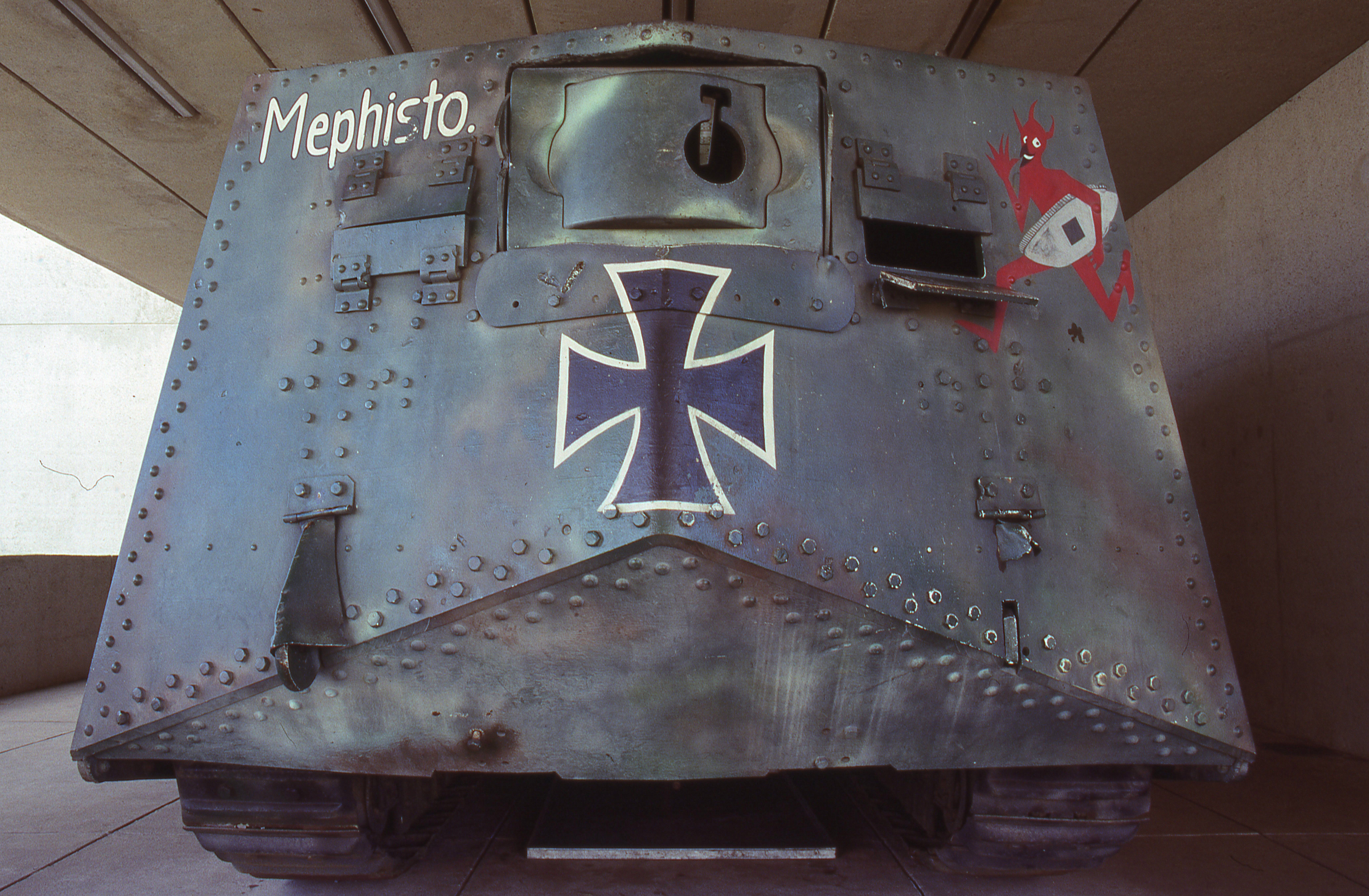 Mephisto, German tank used in World War I, held in Museum of Brisbane, Australia (Kodachrome slide scanned at 6400, originally shot 1988)